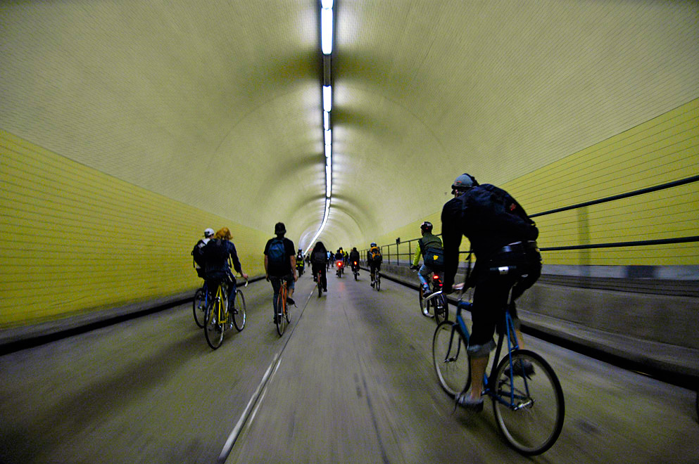 Critical Mass, San Francisco Broadway tunnel, 9/29/06, 7:48pm, f2.8, 1/20sec, 10.5mm, iso800, nikon d70, photo by Adrian